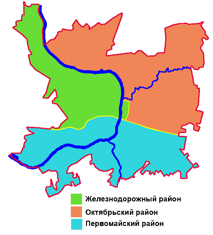 Map of Vitebsk